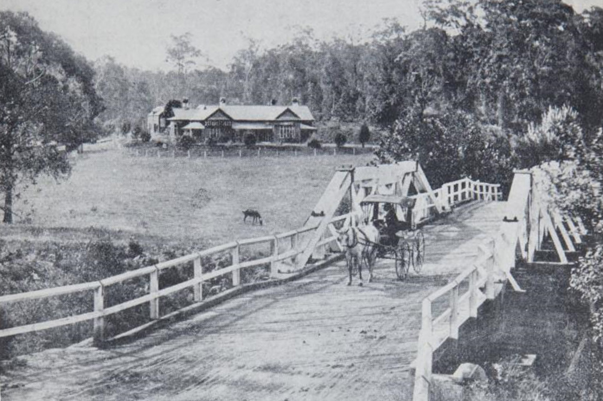 Lynburn, Bomaderry, 1903. The road over the bridge is now the Princes Highway